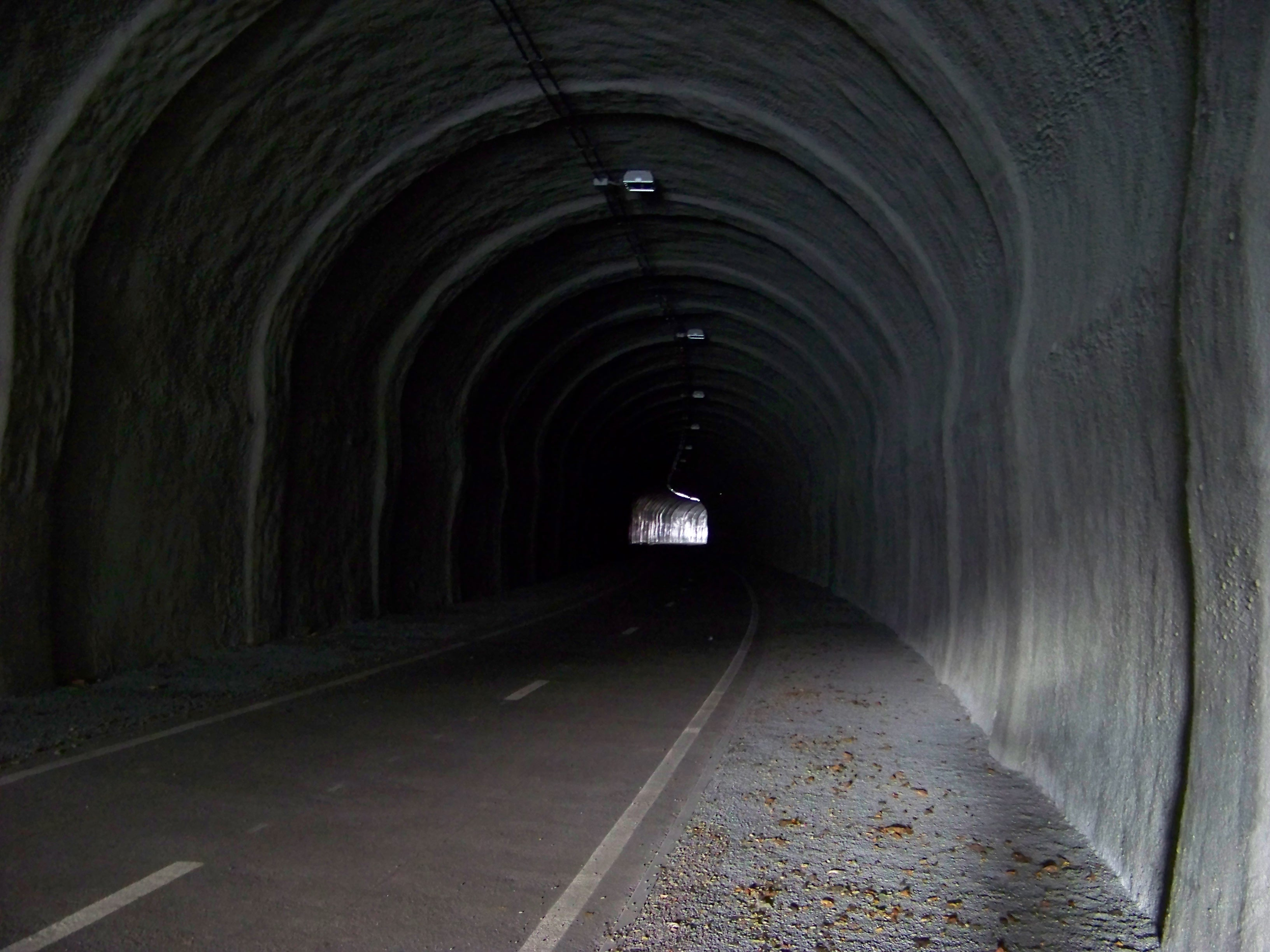 Prague-Žižkov. The bikeway on the former railway track Prague–Turnov. Vítkov Tunnel.